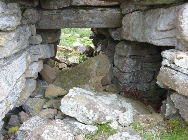 Cinn Trolla Broch, Sutherland, Scotland